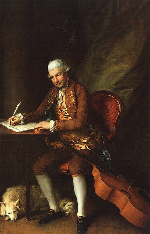 Portrait of Carl Friedrich Abel (1723-1787), German composer